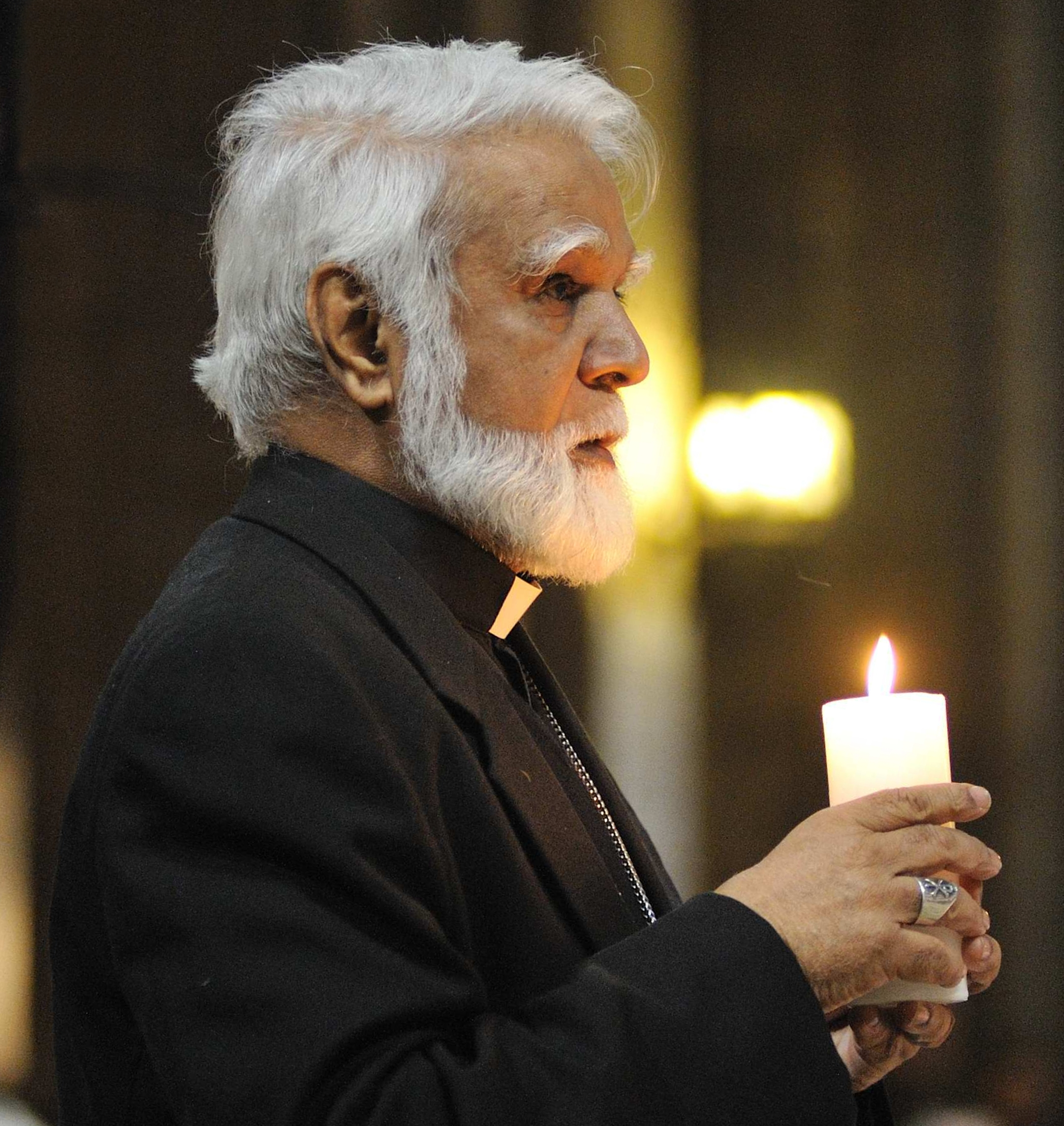 Joseph Coutts during the 8th Night of the Witnesses, in 2016.